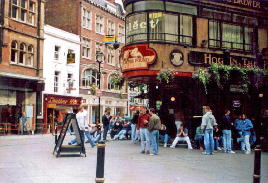 Junction of South Molton Street and Davies Street in London